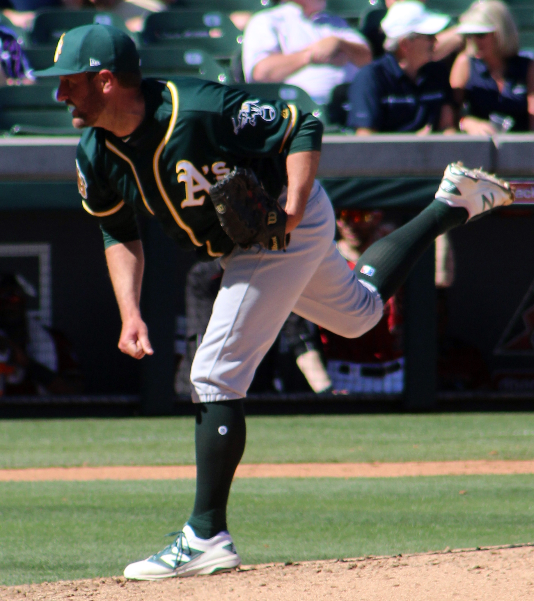 Pitcher Chris Smith - Oakland A's at Arizona Diamondbacks: Spring Training - 3/7/17